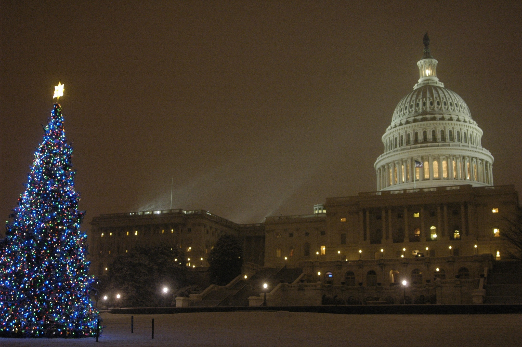 Christmas tree of the United States Capitol shortly after lighting ceremony.